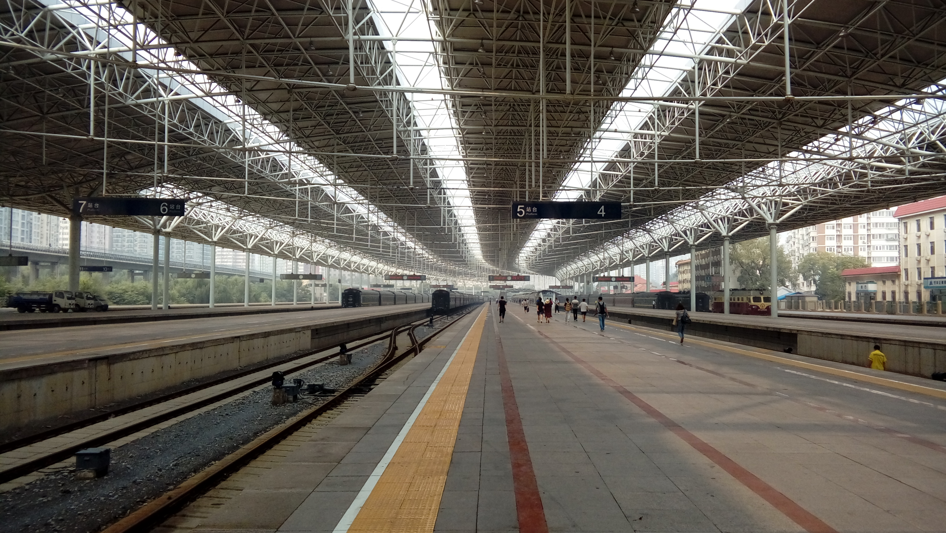 Platforms at Beijing North Railway Station, 16th Sept 2016, showing various trains and the S2 service to Badaling